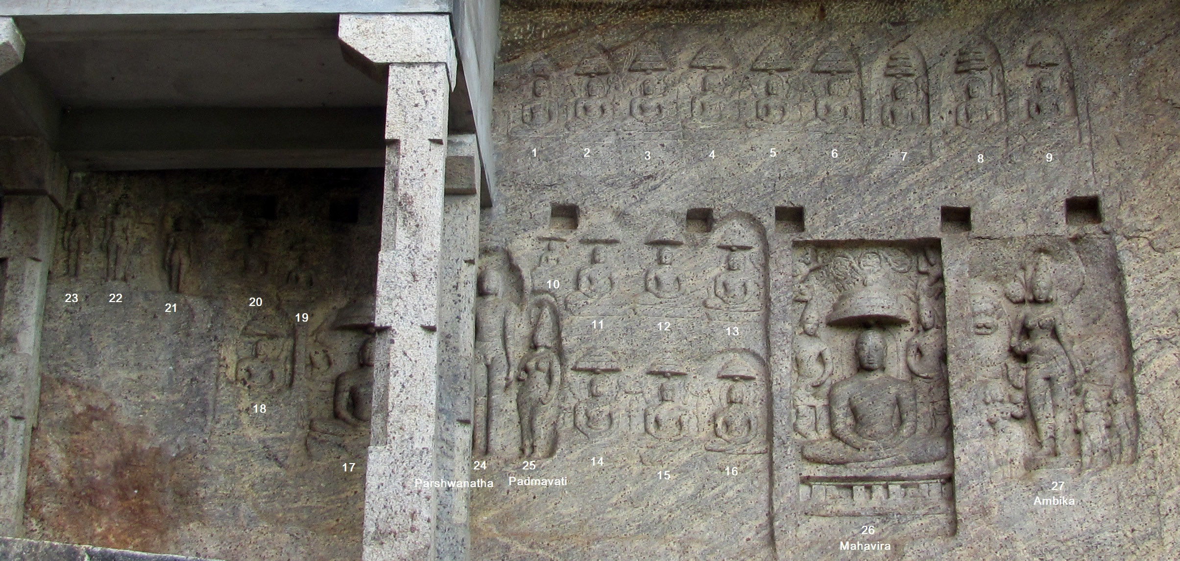 Bas-relief at Chitharal Jain Monuments, Tamil Nadu, India.